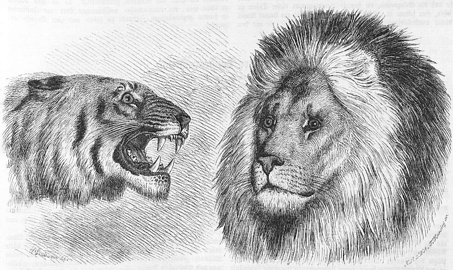 caption: "Tiger- und Löwenportraits aus dem zoologischen Garten in Berlin."